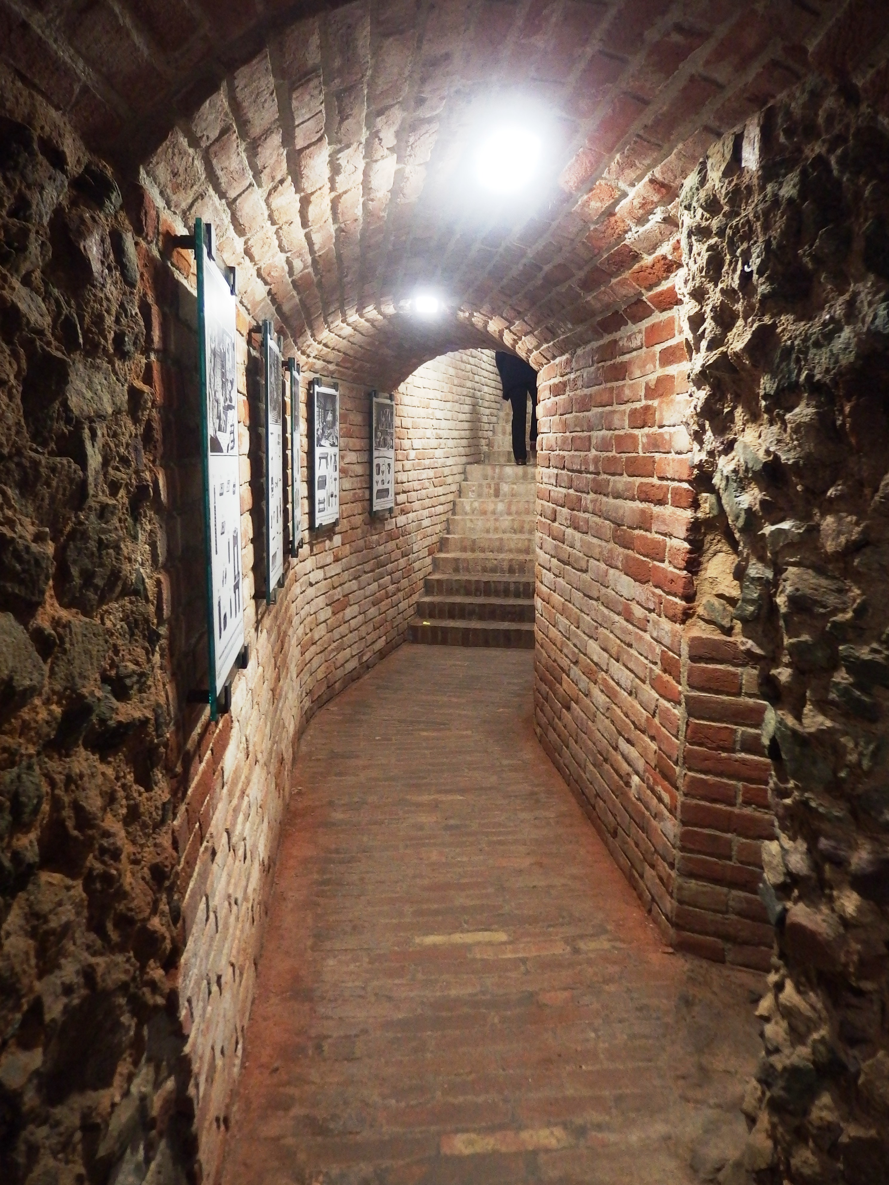 Brno, Czech Republic. Mintmaster's cellar.